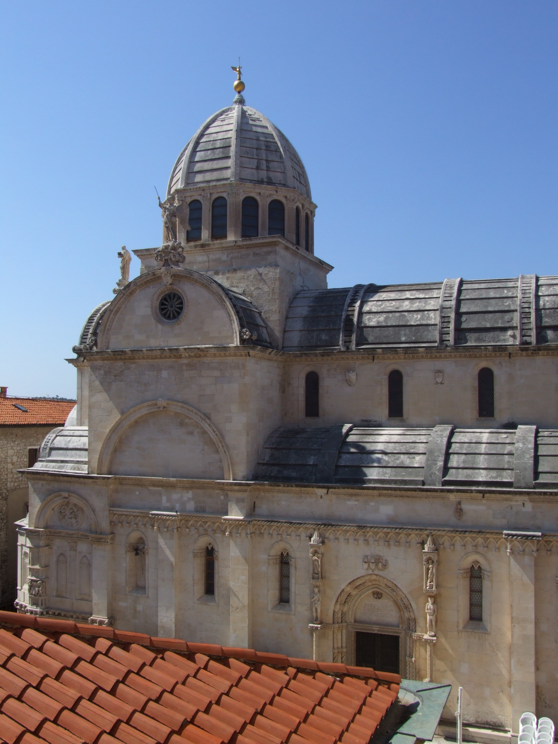 Šibenik, Croatia - cathedral of St. Jacob